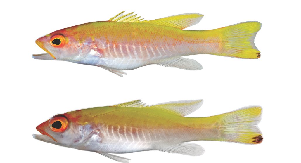 Spot-tailed golden bass, Lipoproma santi, taken from Figure 2 (type series). From :- Carole Baldwin, Ross Robertson. A new Liopropoma sea bass (Serranidae, Epinephelinae, Liopropomini) from deep reefs off Curaçao, southern Caribbean, with comments on depth distributions of western Atlantic liopropomins. ZooKeys, 2014; 409: 71 This image shows two paratypes of the species.